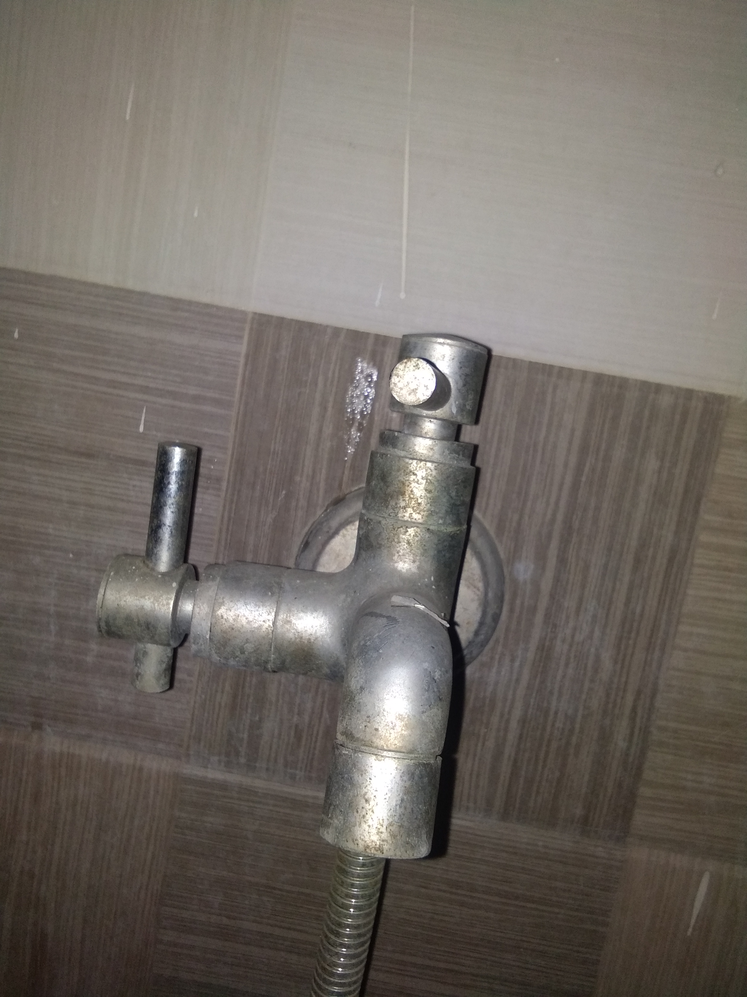 Water tap for two way connections